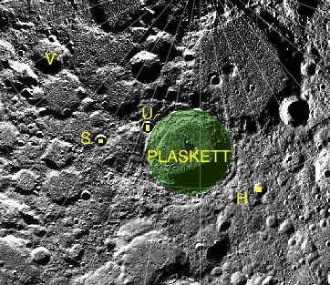 Plaskett sattelite craters map